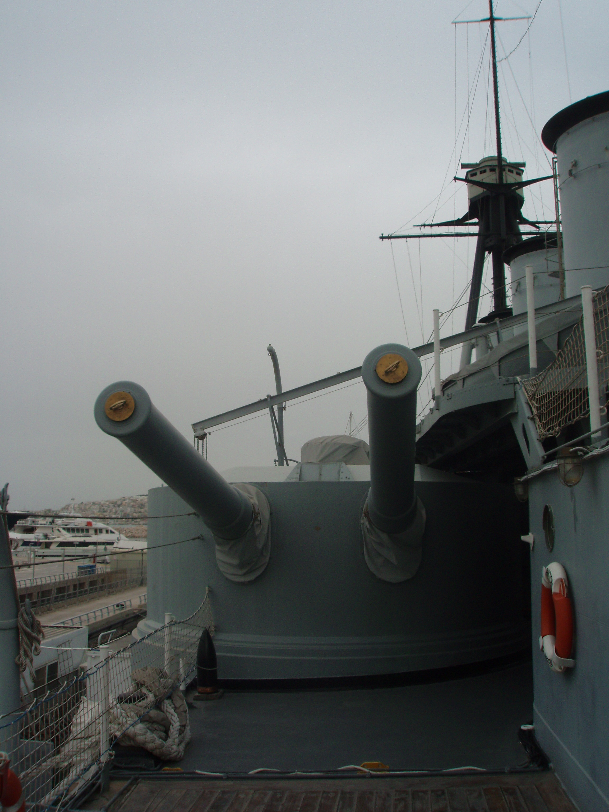 The rear port-side twin 190-mm gun turret of the armoured cruiser Georgios Averof at the Maritime Tradition Park in Faliron, Greece